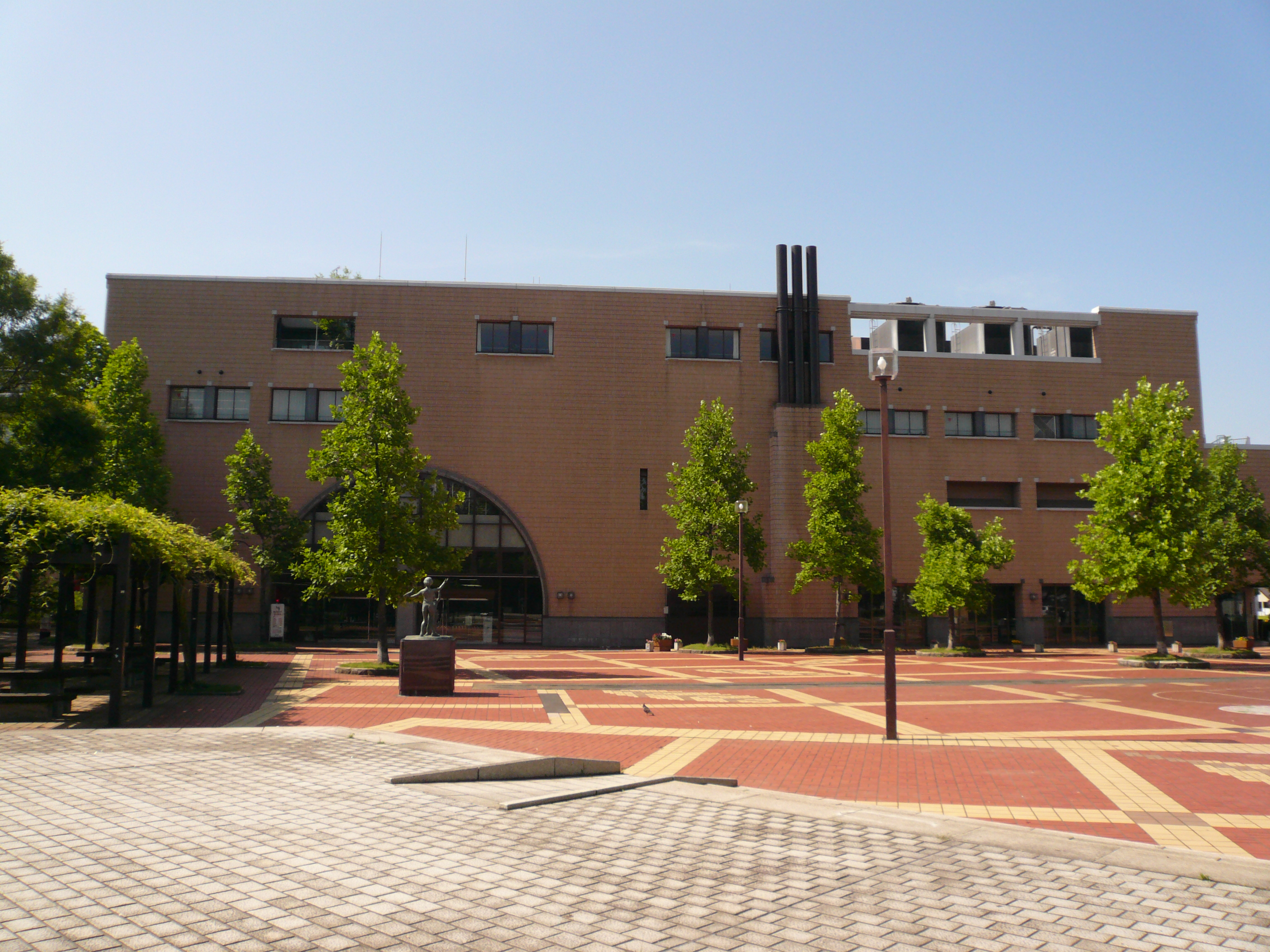 Gifu City Culture Center, Gifu, Gifu, Japan